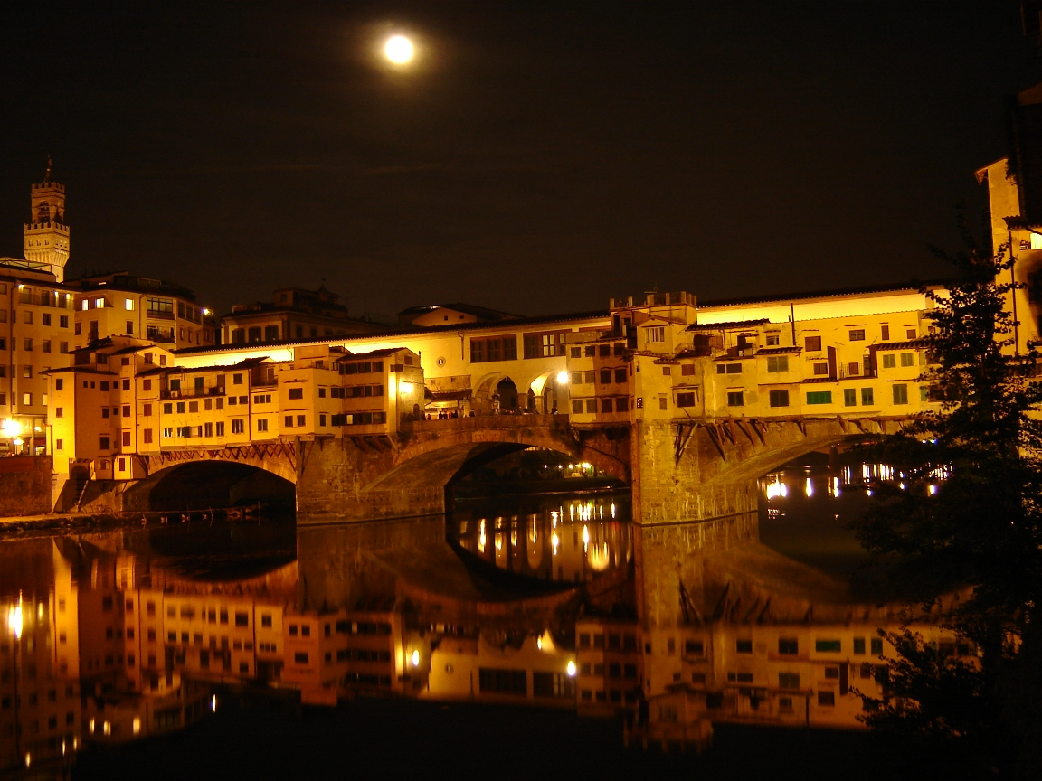 Ponte vecchio at night